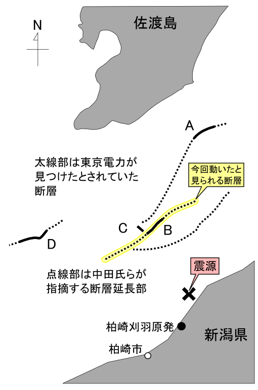 Translated version uploaded to Image:Kashiwazaki Kariwa Fault Lines.PNG